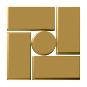 Central Bank of Armenia logo